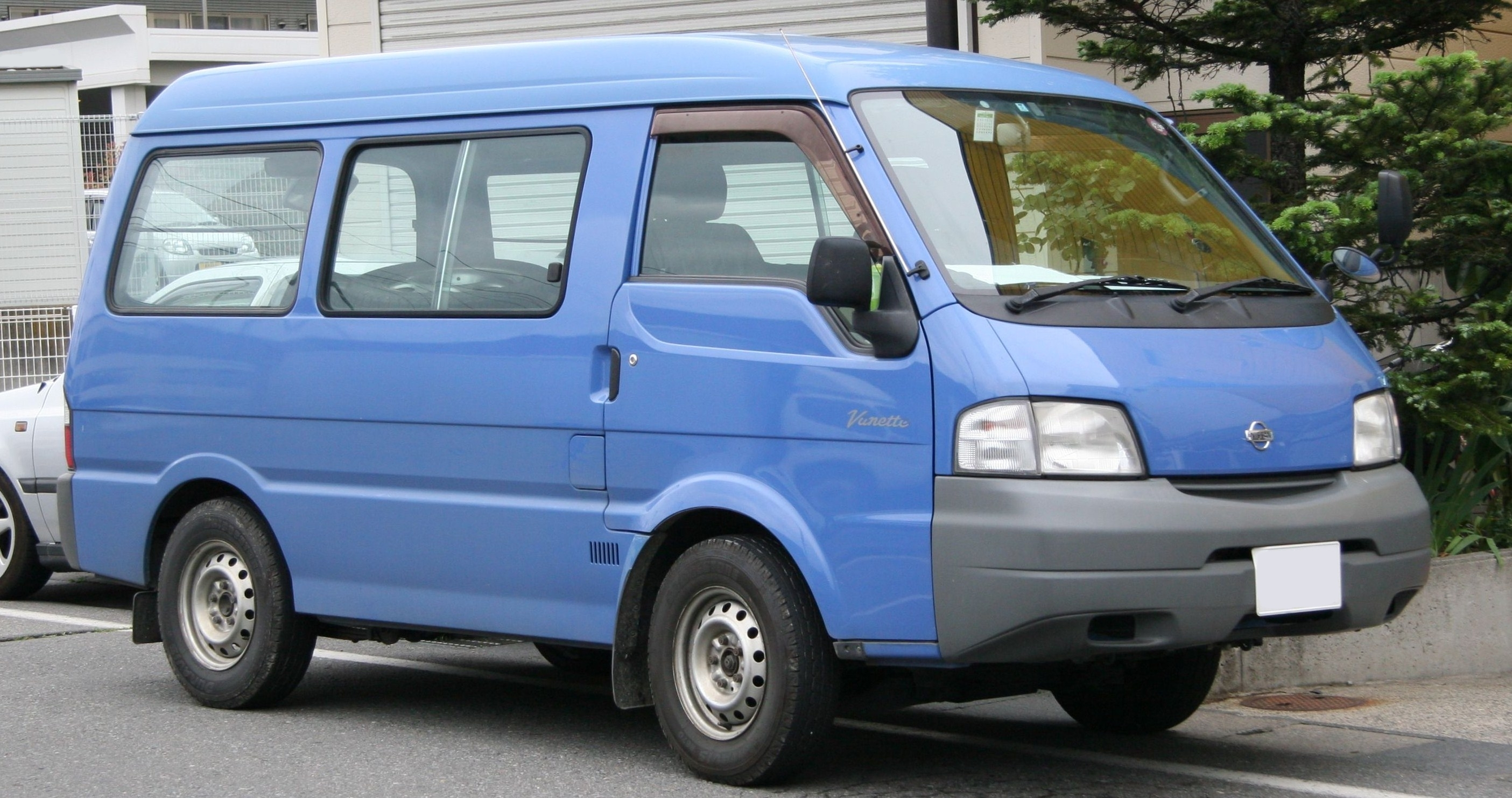 NISSAN Vanette